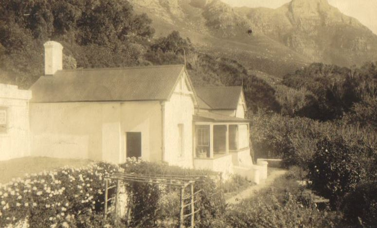 Old image probably of a section of the Molteno familys retreat in Millers Point. Cape Peninsula. c 1920s.